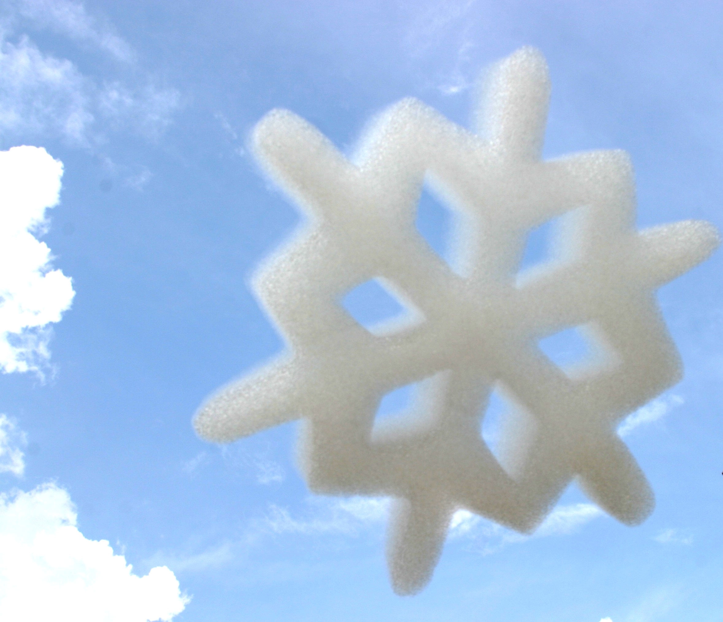 Flogos snowflake, flying foam shape